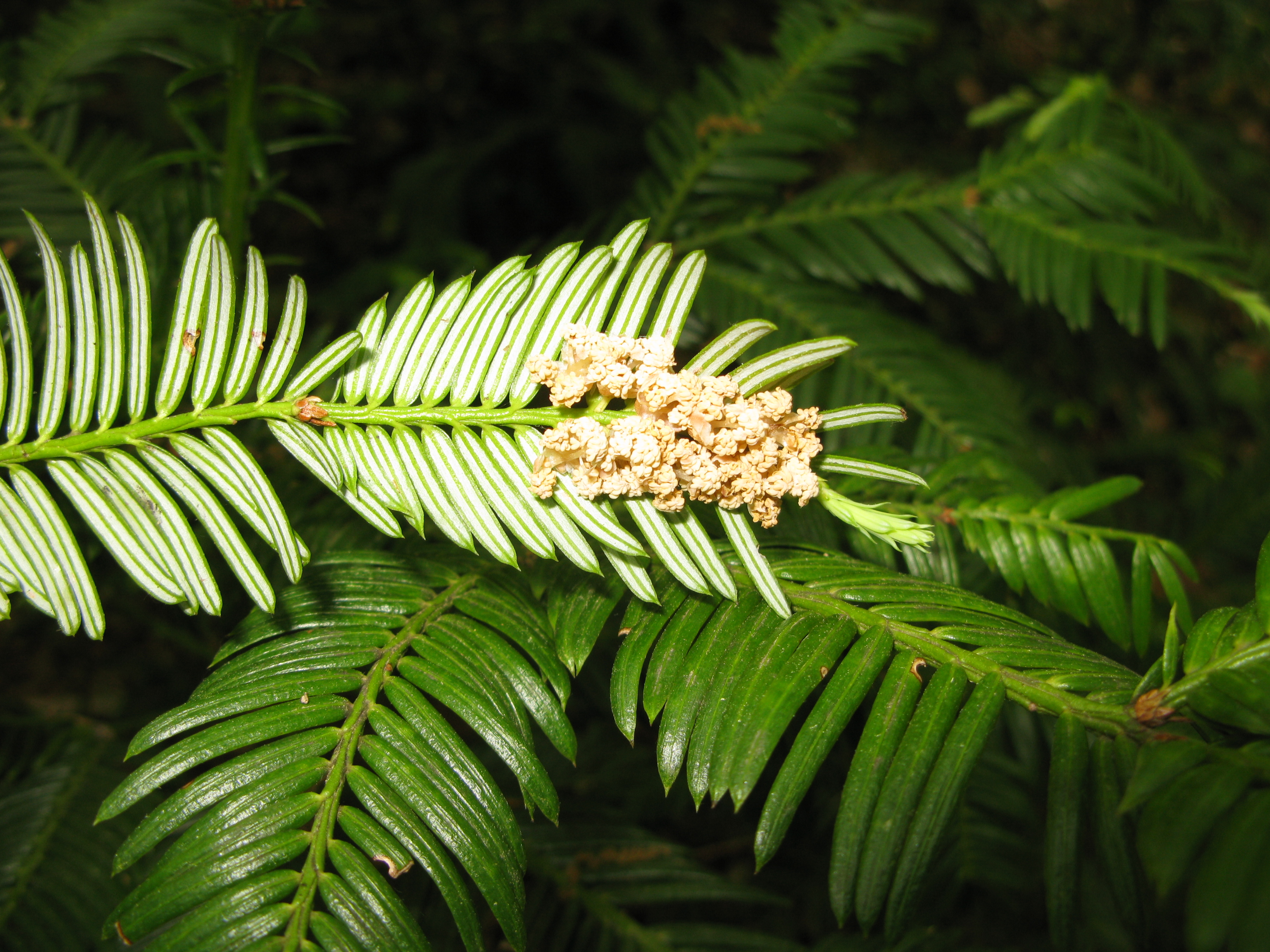 Cephalotaxus harringtonii var. nana, Male cones, Aizu area, Fukushima pref., Japan